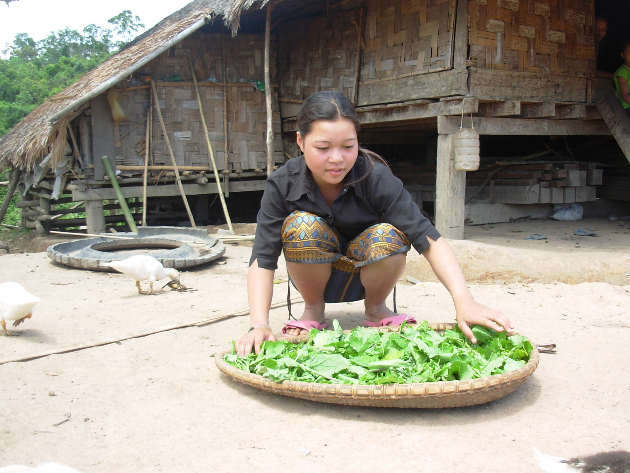 A young Ta-Oy woman in Salavan province of Laos spreads a green leaf, known as pak gat, in the sun. There are many types of pak gat; this one can be added to sauces to give a sour flavor. The Ta-Oy are one of the 49 ethnic groups recognized by the Lao government; most live in the southern region of the country.